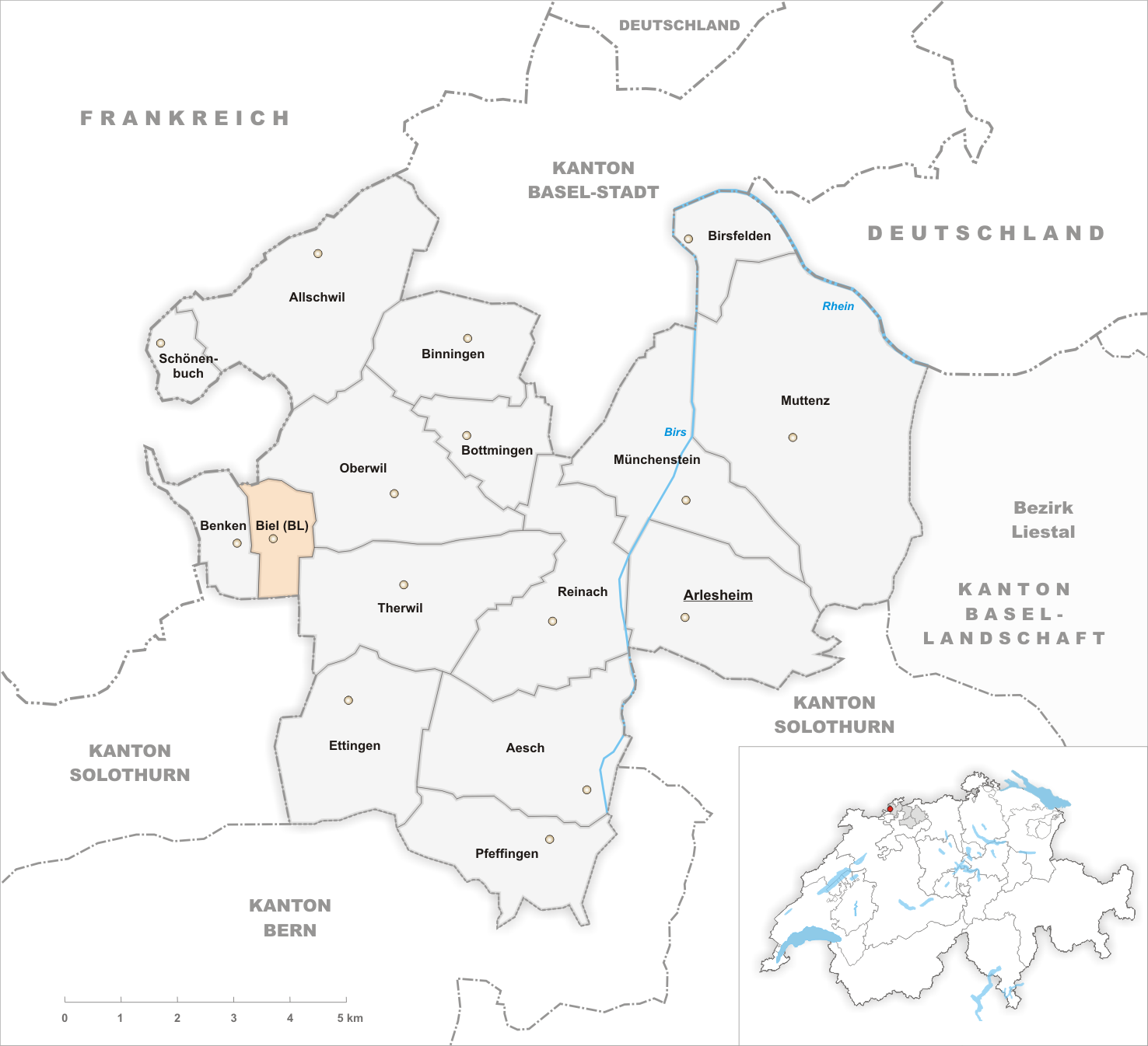 Municipality Biel Artist: Tschubby